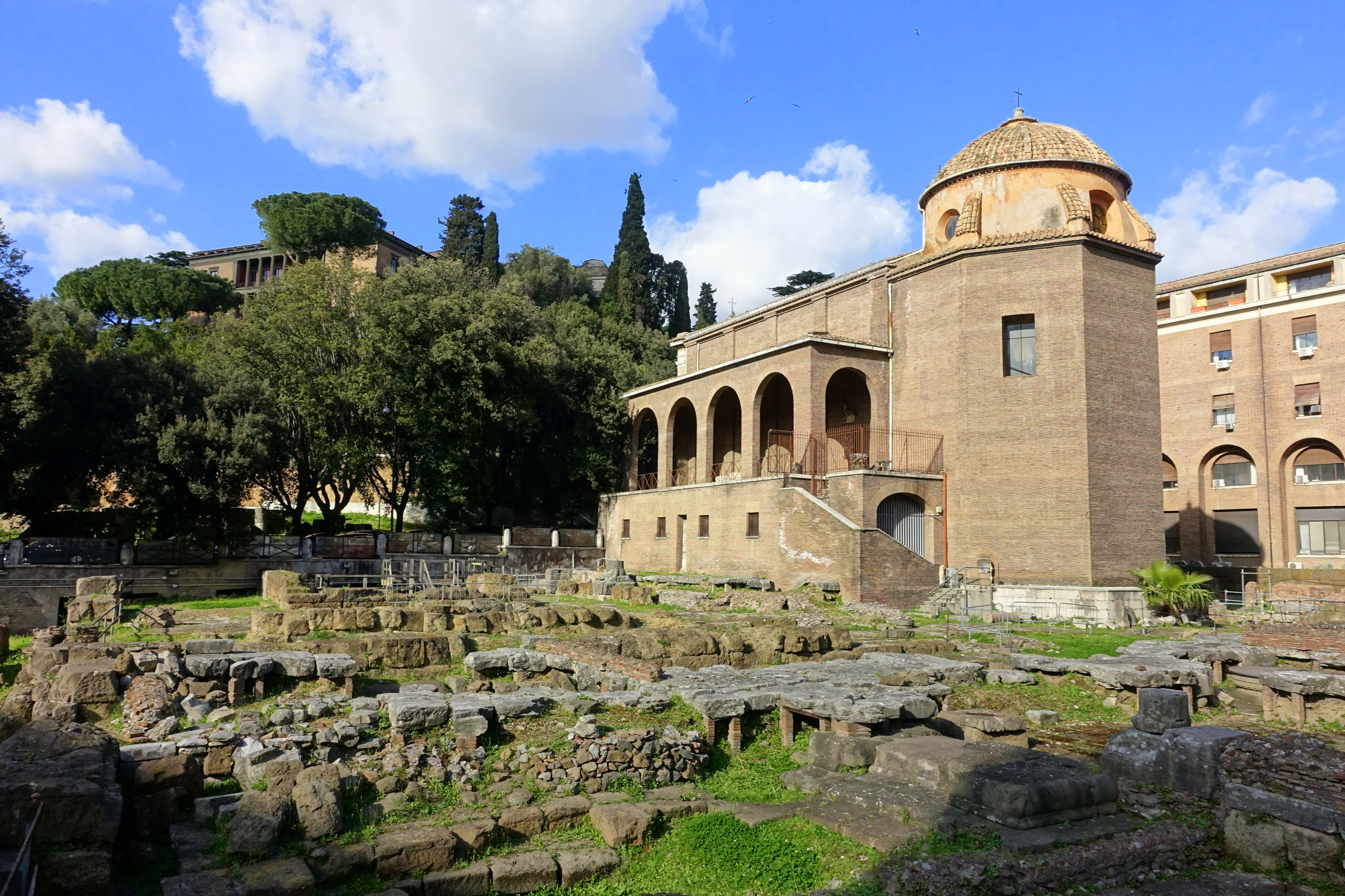 Sant'Omobono Area - Rome, Italy.